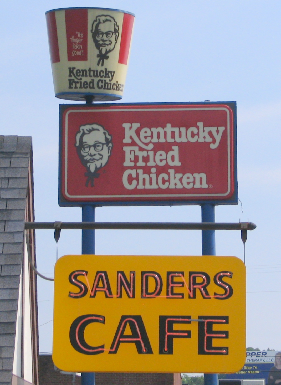 KFC started as Harlan Sanders Cafe in Corbin, Ky. He owned a motel and a restaurant along highway US25. When the interstate was built, fewer people drove past the place, and it almost went out of business until he passed the fried chicken recipe to a franchise. Now, the 11 herbs and spices are eaten everywhere. In the foreground is the original Sanders Cafe sign which sticks out of the entrance. In the background is the really tall 1980's bucket sign that you can see from the interstate. Of course, these days the powers that be market the fast food chain as KFC and not Kentucky Fried Chicken in most places Hello to anyone who found this photo on Kentuckyville.US or here: or here: Or here:(in a blog post referencing a news story about PETA asking Cambodia to not open a KFC) This is my 2nd photo to reach 1000 views. woot! the newest place for it to show up: I included this photo in one of my own blogs here: Today's new Location: Hi Retro TV Girl! and here: Inspire Me With A Marketing Story This is my 4th photo to reach 2000 views! Next, used here: Tales of The Stand Out Brand Then here for a KFC quiz: also seen here: Success Story #3: Harland Sanders and then here: Which was reposted here